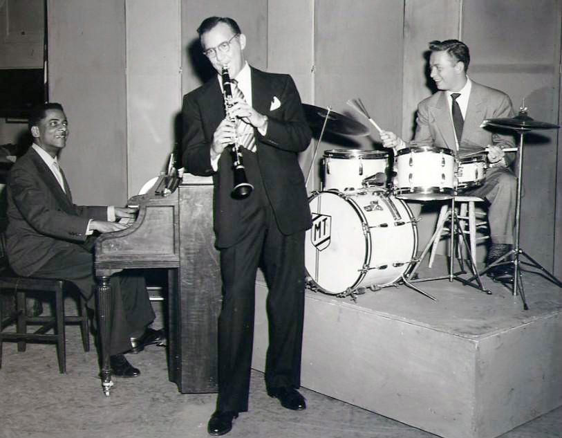 Photo of (from left) Teddy Wilson, Benny Goodman, and Mel Tormé.